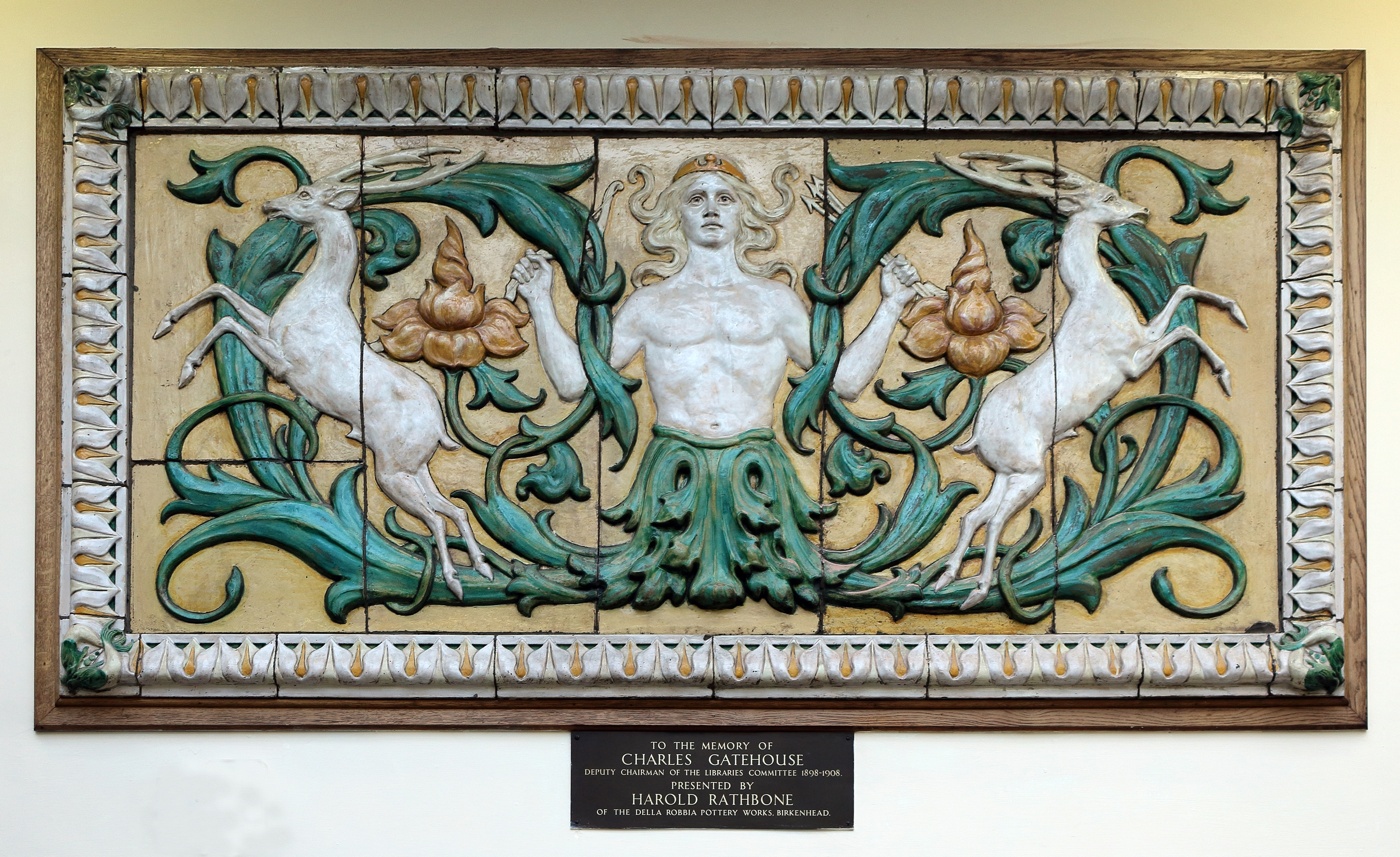 Della Robbia pottery relief of The Green Man, a folk figure, in the Lending Library of Birkenhead Central Library. Also plaque showing provenance.